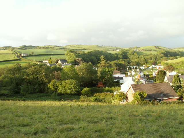 Dol-y-bont, Ceredigion. The village, looking north-east, evening.